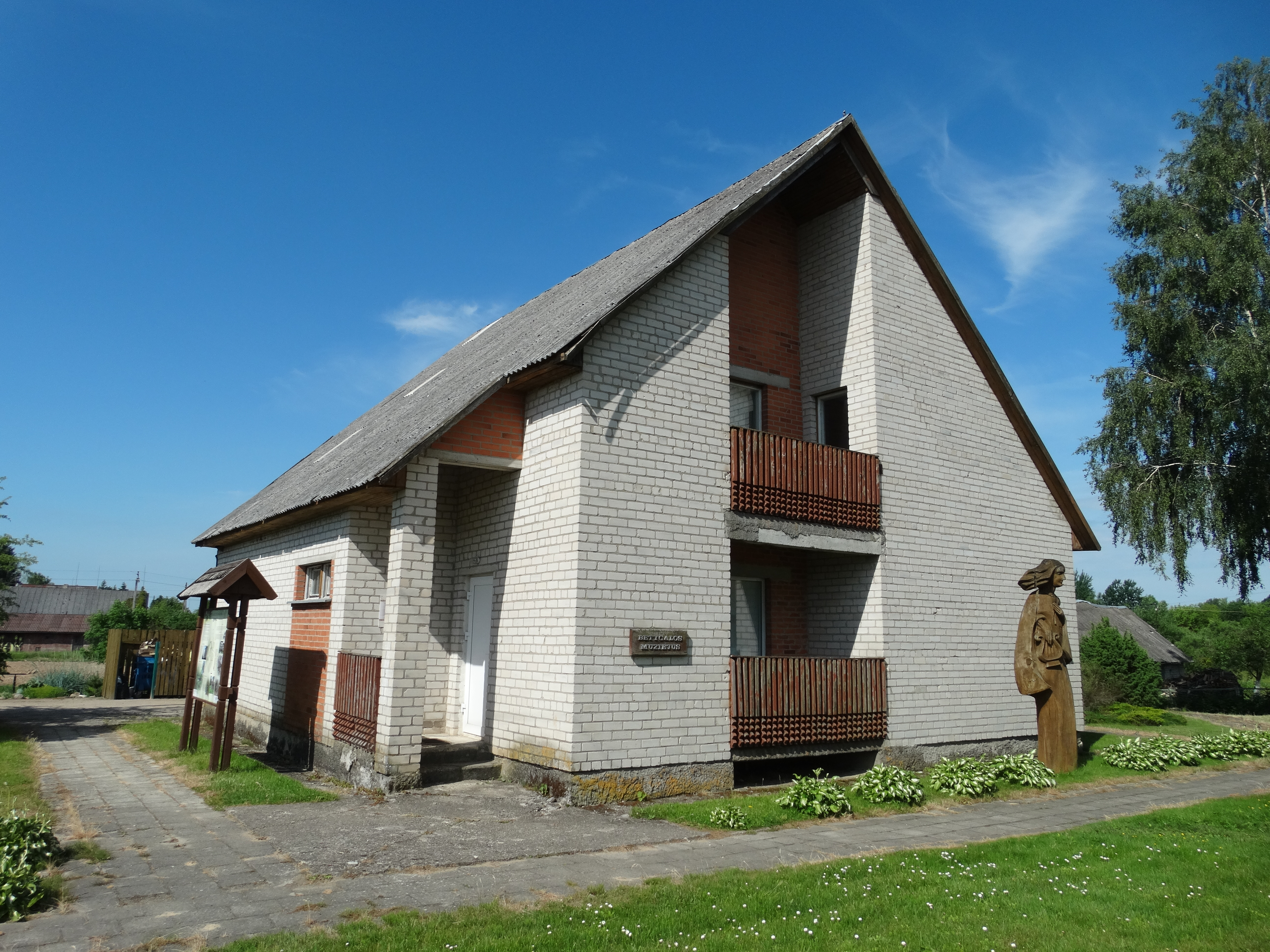 Museum in Betygala, Lithuania